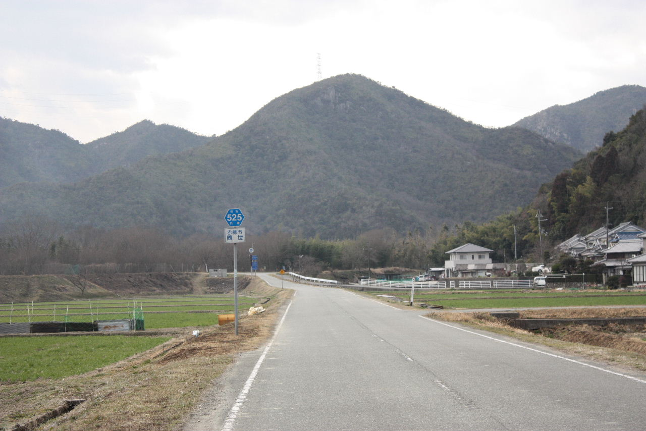 Hyogo prefectural road NO.525